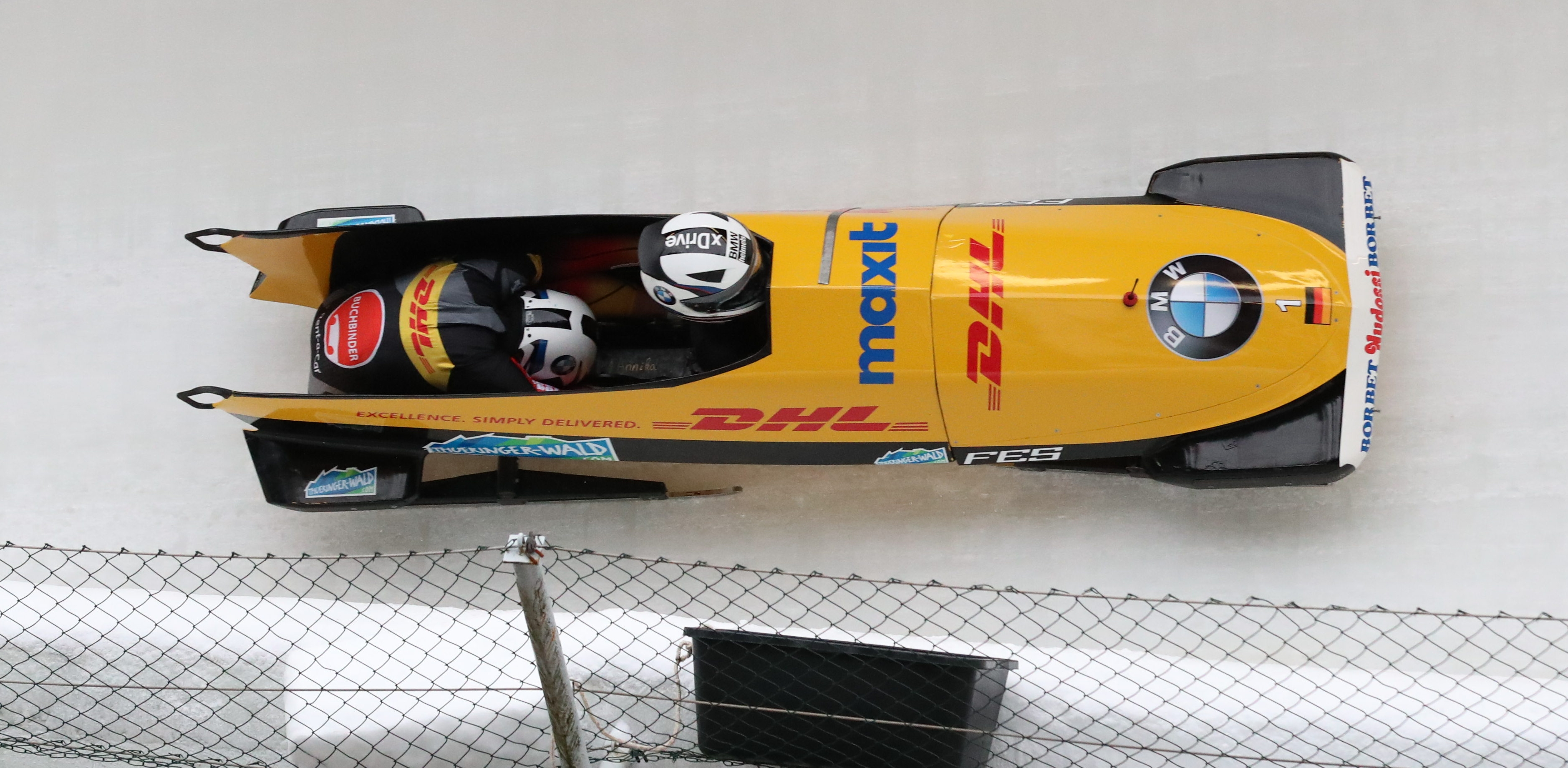 3rd run at the 2-woman bobsleigh at the Bobsleigh and Skeleton World Championships 2020 in Altenberg